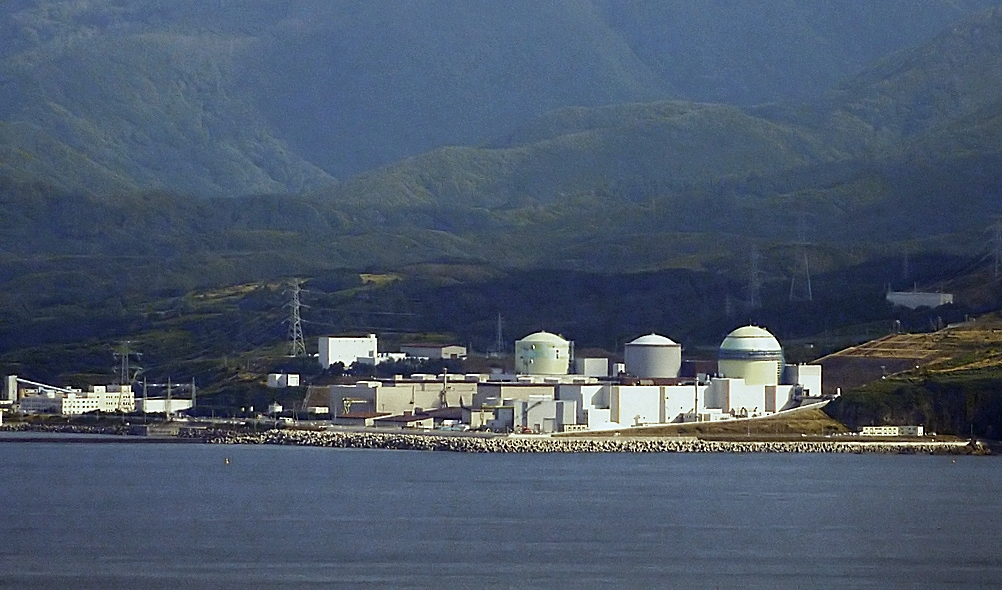 Tomari Nuclear Power Plant (Tomari, Hokkaidō, Japan)